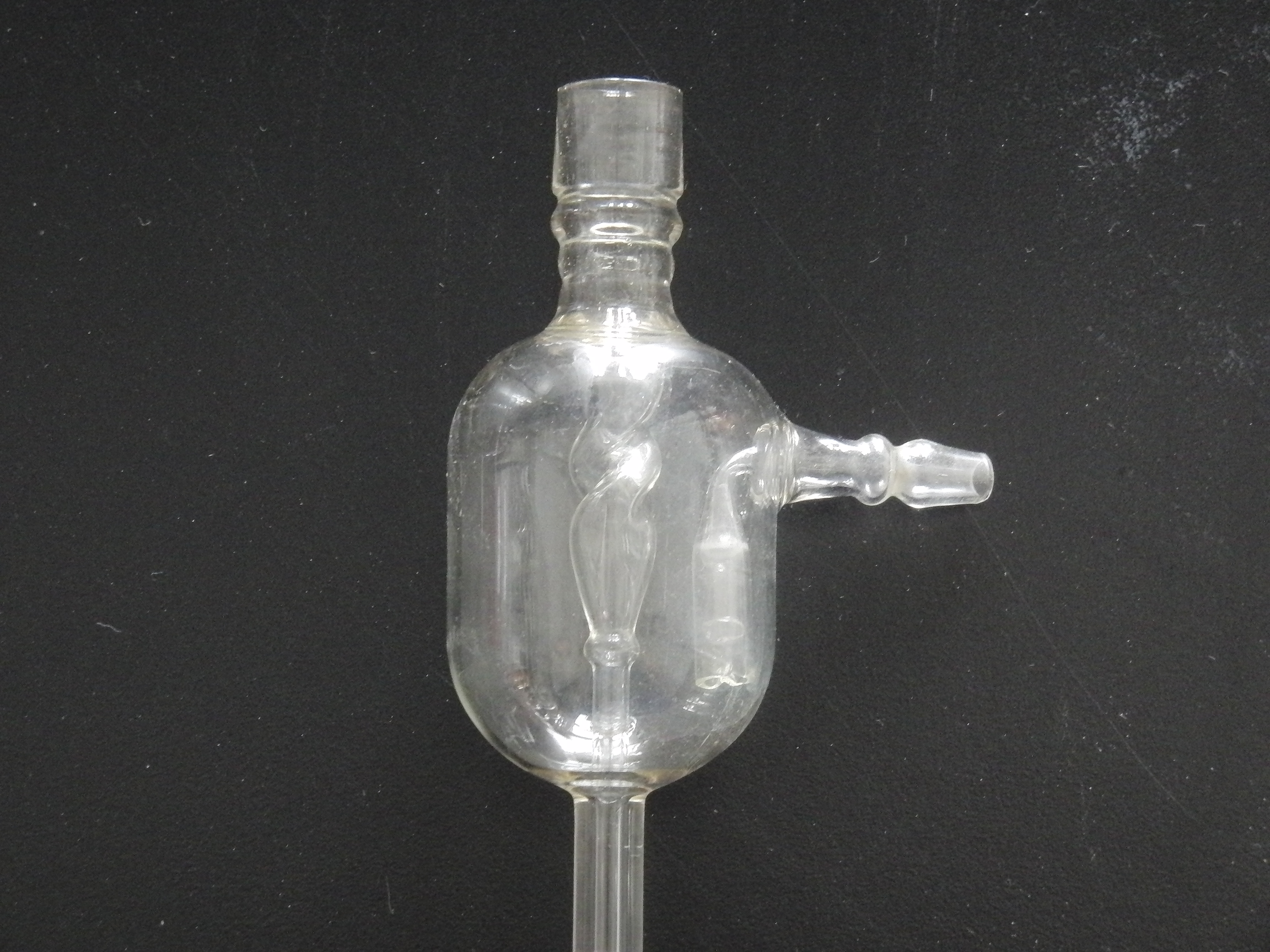 glass aspirator